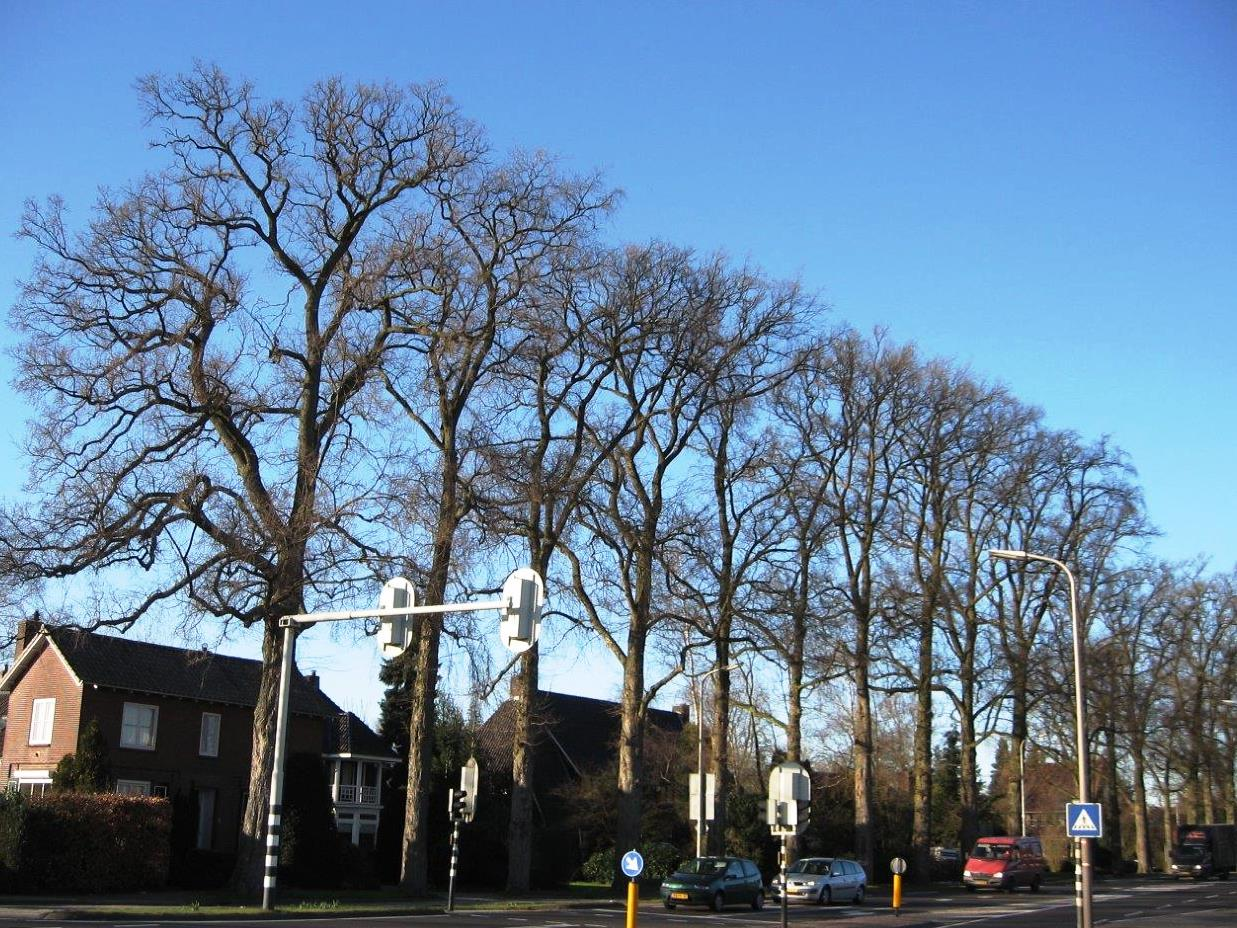 Photo of 17 columnar Ulmus laevis planted circa 1900 as street trees at Eibergen, Netherlands.